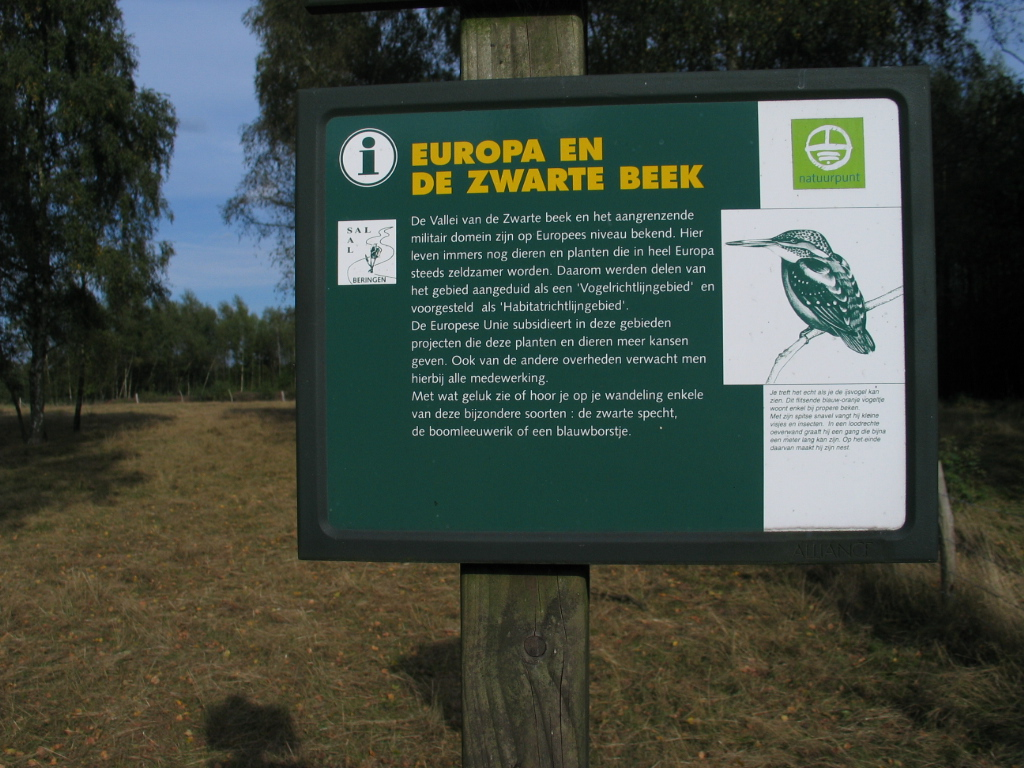 Sign for the Valley of the Zwarte beek (black creek).